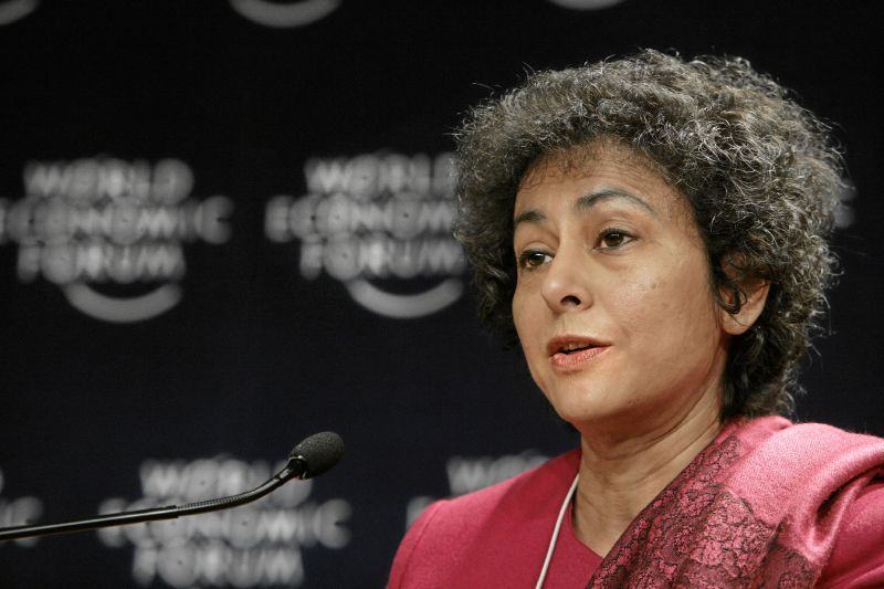 Irene Khan, Secretary General of Amnesty International, captured at the Annual Meeting 2007 of the World Economic Forum in Davos, Switzerland, January 28, 2007.